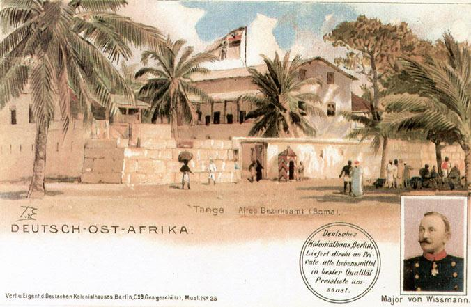 Tanga in 1914, a postcard painted by Themistokles von Eckenbrecher (1842-1921)